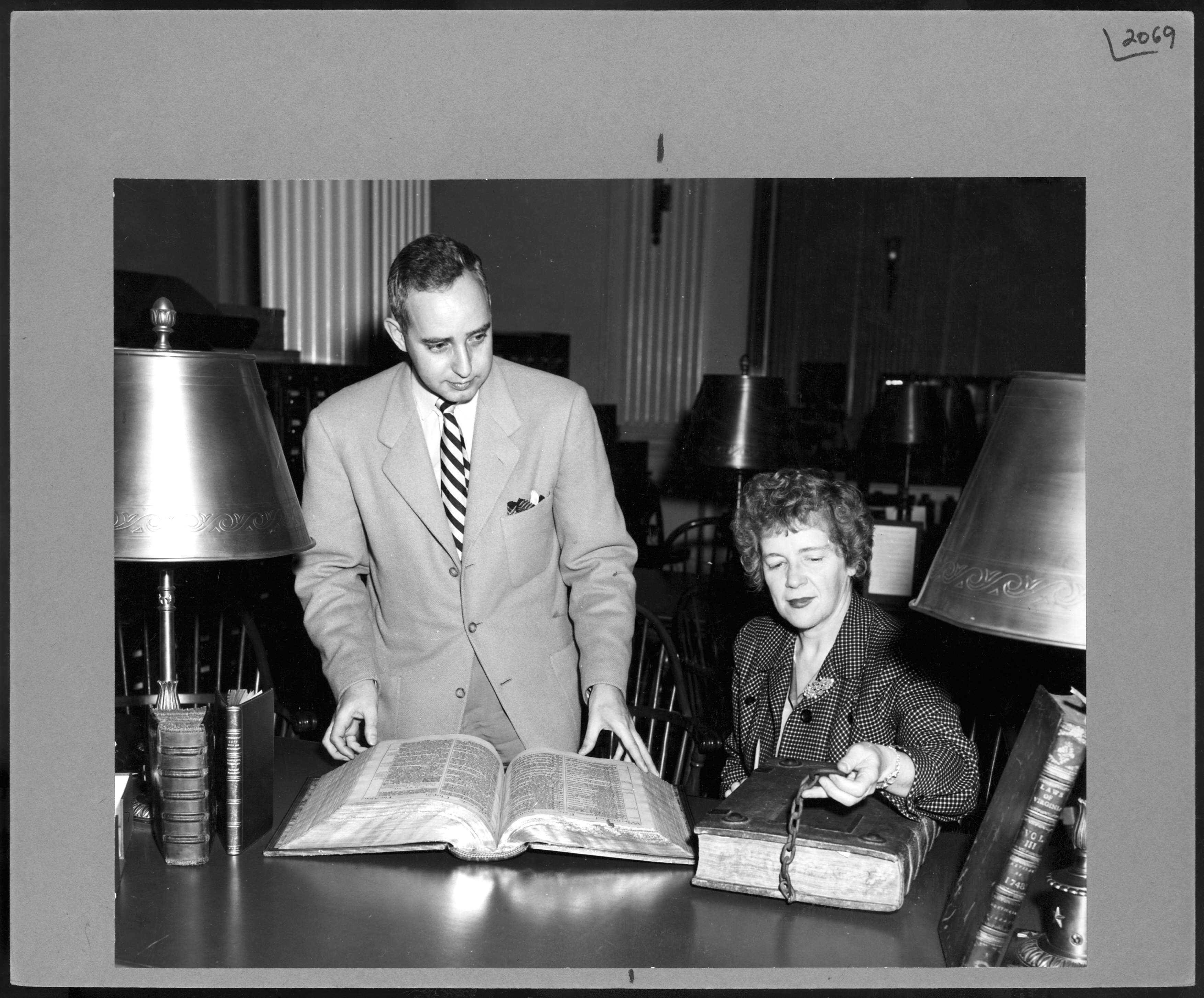 Frederick Goff, Chief of the Rare Book Division of the Library of Congress, and Gladys Harris examining two books from the division's collection. The books are a first edition of the King James version of the Bible, which was published in London in 1611, and Guillaume Duraudus' Speculum Judiciale, which was published in Venice in 1488.